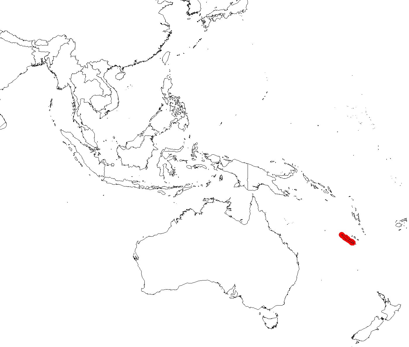 Parsonsia flexuosa Occurrence data downloaded from (21 December 2018) GBIF Occurrence Download